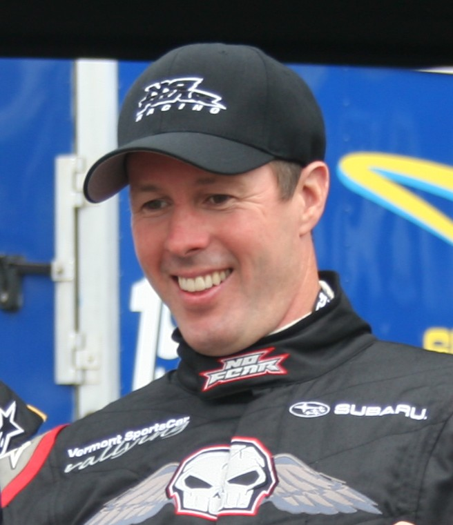 Travis Pastrana, Colin McRae, Ken Block X Games 13 Carson, CA 5 August 2007 Colin McRae 1968-2007